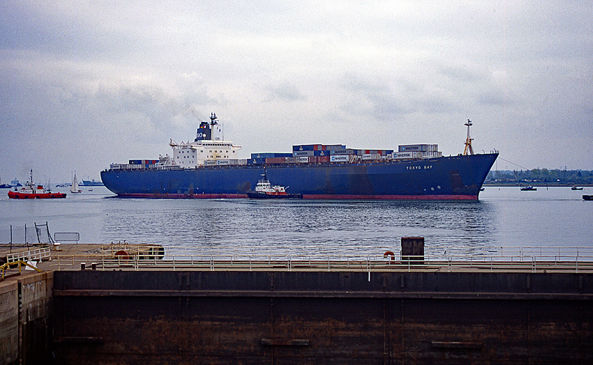 P&O Containers Tokyo Bay passing Southampton's dry dock in 1995. Other name: Jay Matardi Information about the vessel may be found at IMO 7118272.A ship can change name and flag state through time, but the IMO number remains the same through the hull's entire lifetime. As a result, it can be useful to identify a ship by using the IMO number. Scanned from a Fujichrome 35mm slide.